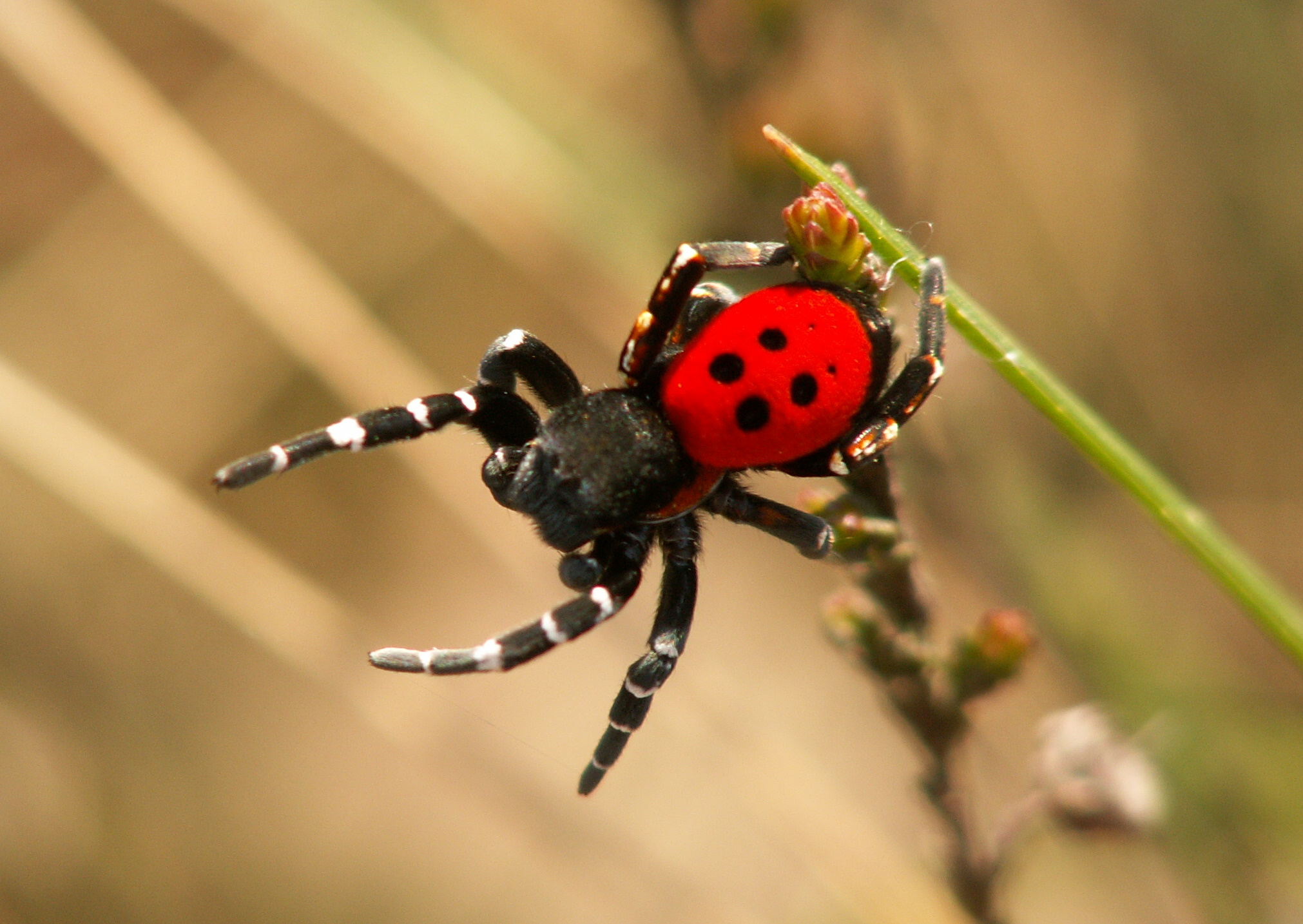 This male spider Eresus sandaliatus is trying to pick up the scent of a female with organs on his legs. Hoge Veluwe, The Netherlands